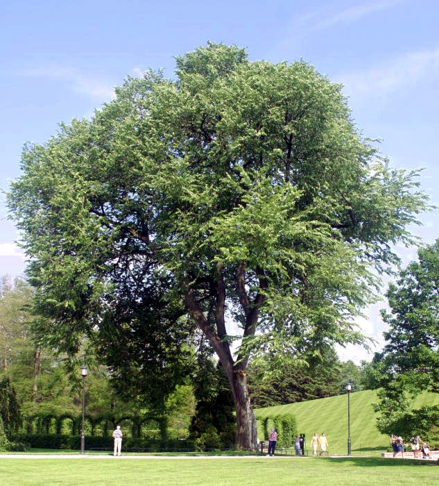 Ulmus americana (American Elm) This tree at Longwood Gardens was planted in the 1930's and is the last American elm in the gardens (the others having been lost to Dutch Elm Disease). The picture was taken by me on May 22, 2004